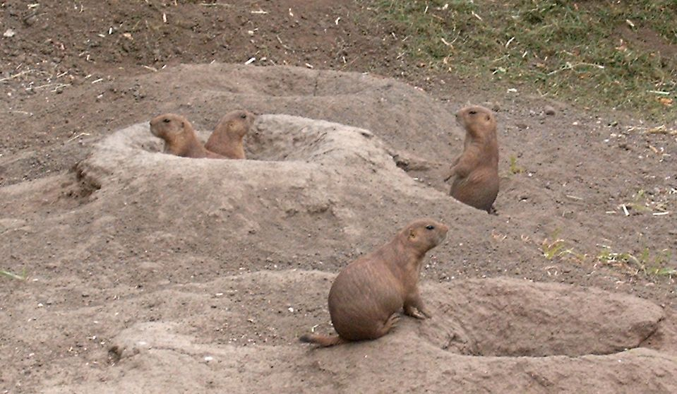 Made by myself, User:Mathae at Budapest Zoo, in 2005. Black-tailed prairiedogs (Cynomys ludovicianus)